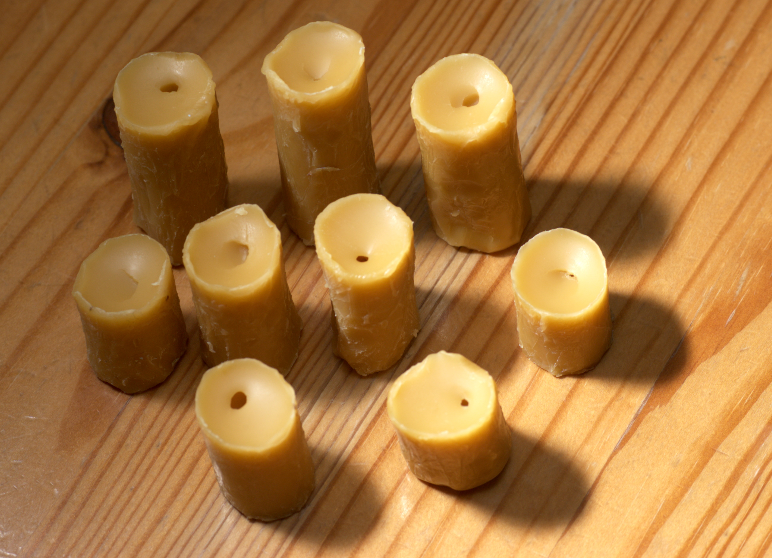 Making string wax. Here with Colophonium (transparent, on the left), Carnauba wax (top) and bee wax (bottom right, big bricks). The aluminium layer has been wrapped around a round wood stick.